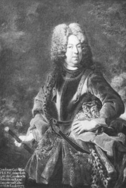 Portrait of Gundacker von Althan, created by Jacob van Schuppen, 1723